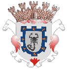 Coat of arms of the municipality of Colotlan, Jalisco, Mexico